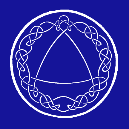 The logo of Guitar Craft, a knotwork design by Steve Ball (similar to Ball's Possible Productions knotwork, which is the logo for Discipline Global Mobile and on the album cover of King Crimson's Discipline. The central triangle evokes the (nearly equilateral) triangle plectrum (pick) of Guitar Craft, which is produced by Mr. Hiroshi Iketani of Japan; the outer part of the knotwork evokes the arrangement of chairs in a guitar circle, and the interconnections a circulation of a note or notes. The background here is blue.